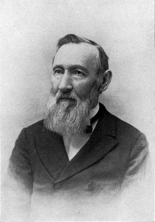 Portrait of George Vasey (1822-1893)